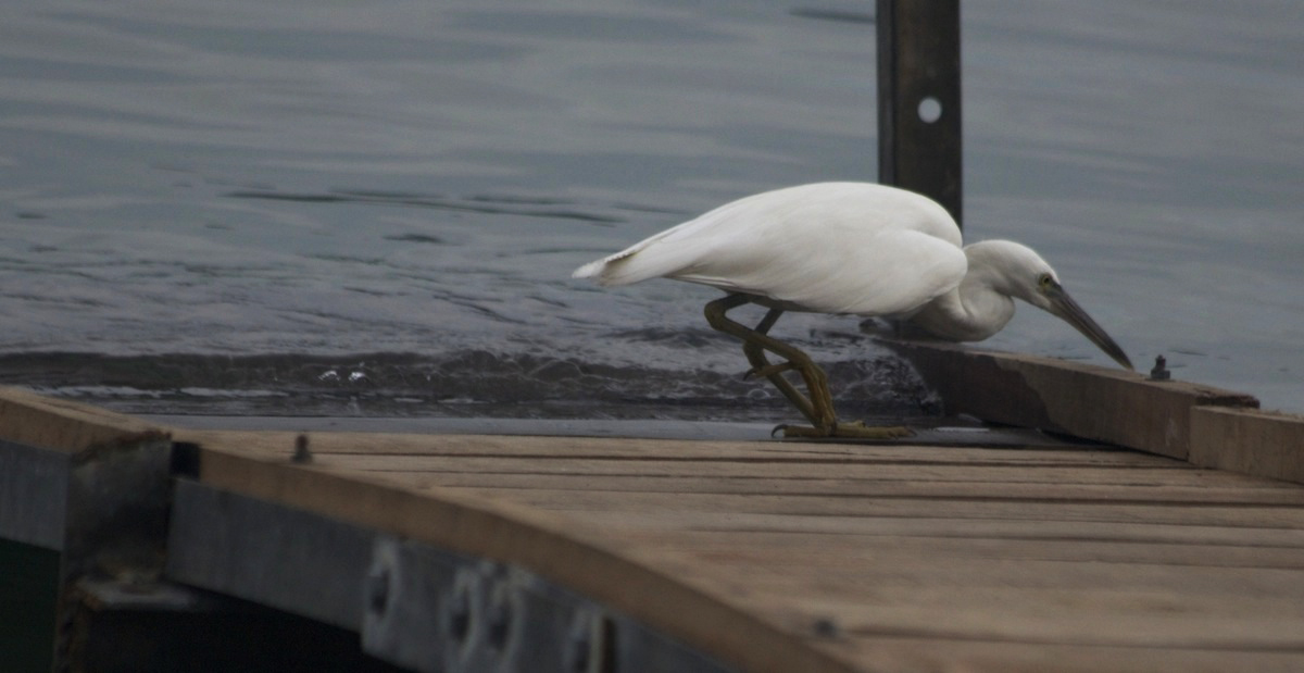 The common Egret you can easily see in Kota Kinabalu, Sabah.